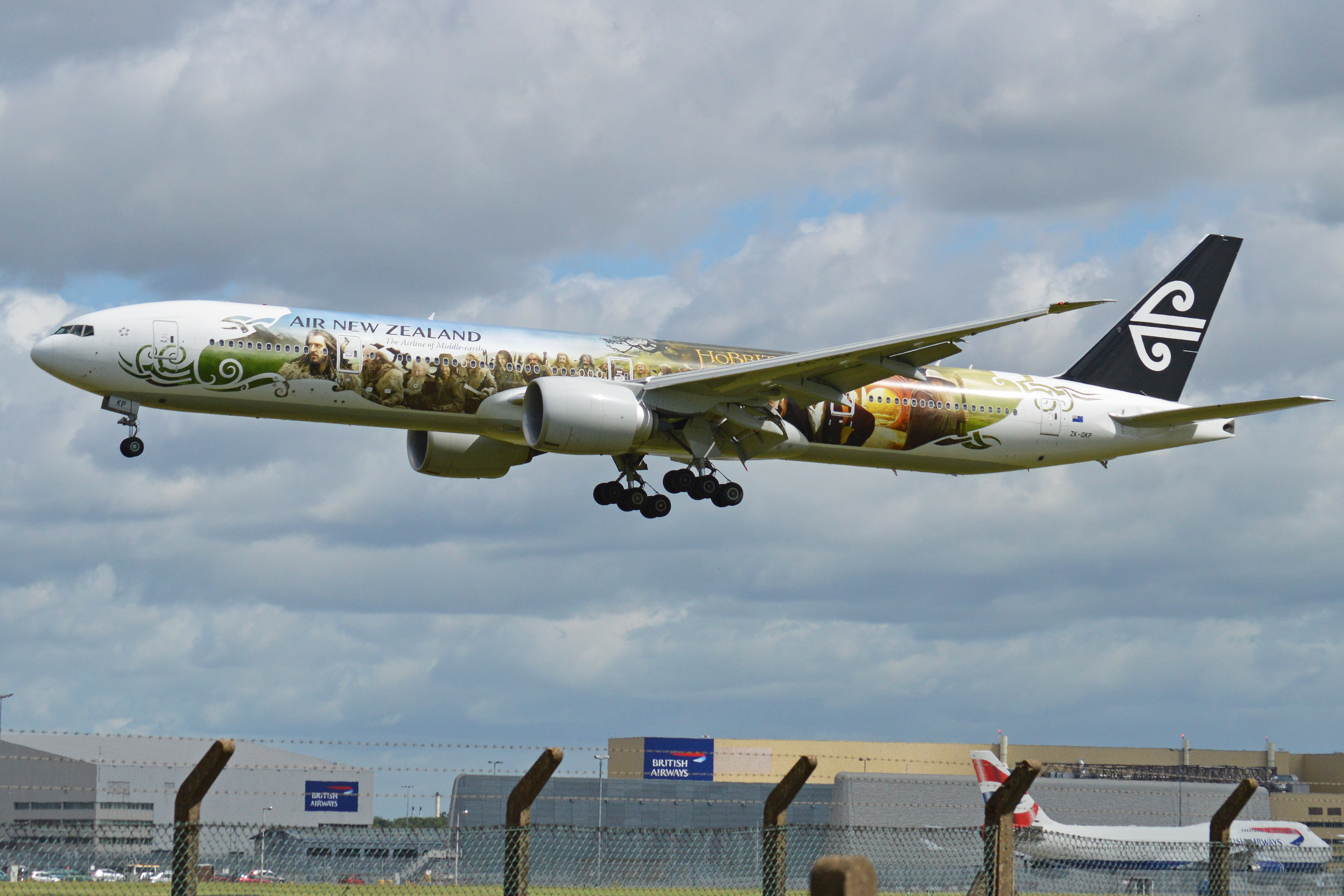 Seen arriving on flight ANZ002 from Auckland via LAX. c/n 39041, l/n 972. London Heathrow. 15-6-2013